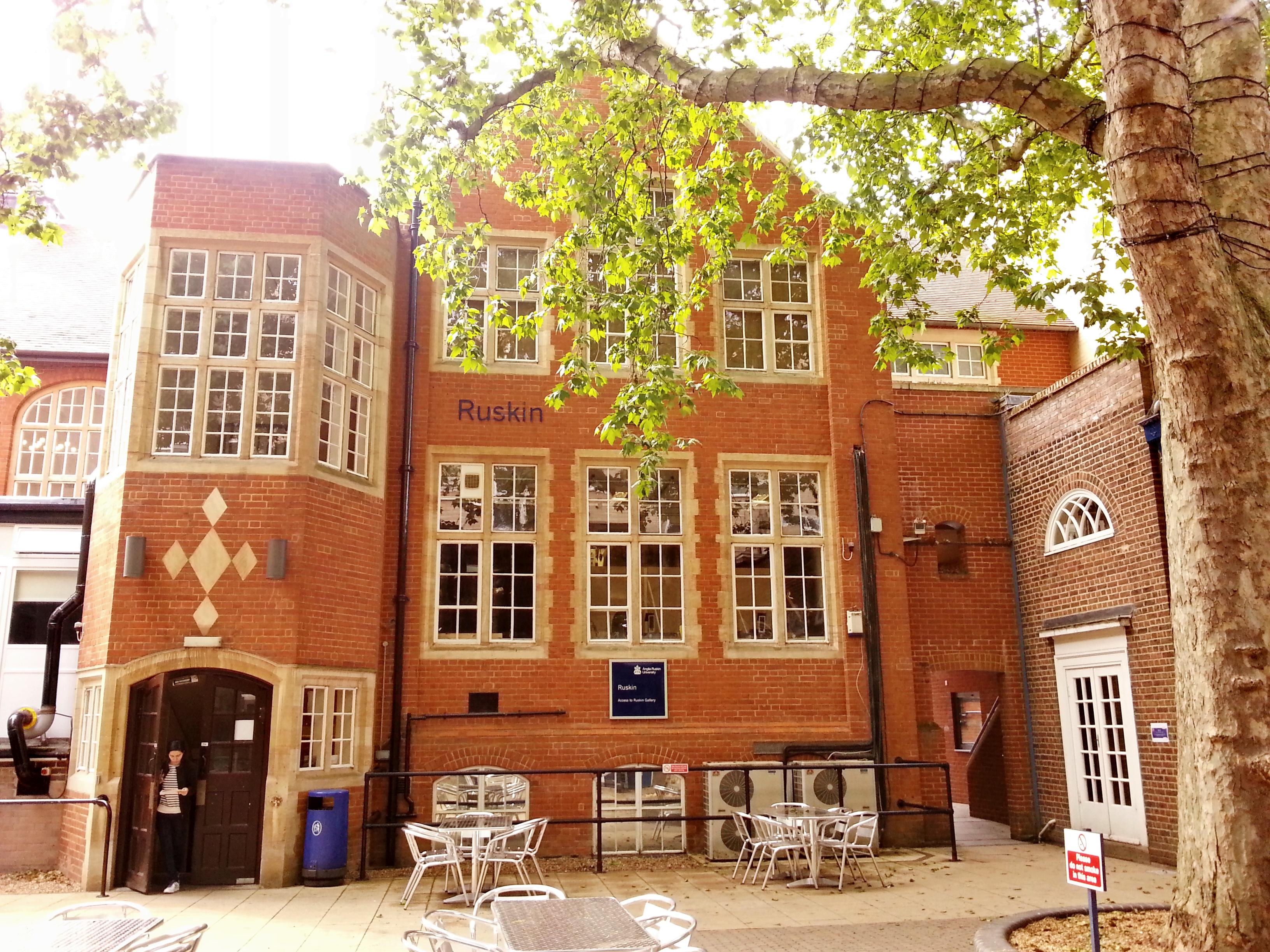 Ruskin Building is part of the original 1858 institutional compound from where the modern day Anglia Ruskin University evolved. It is home to Mumford Theatre and Ruskin Gallery, two of the major on-campus exhibition venues of the university.